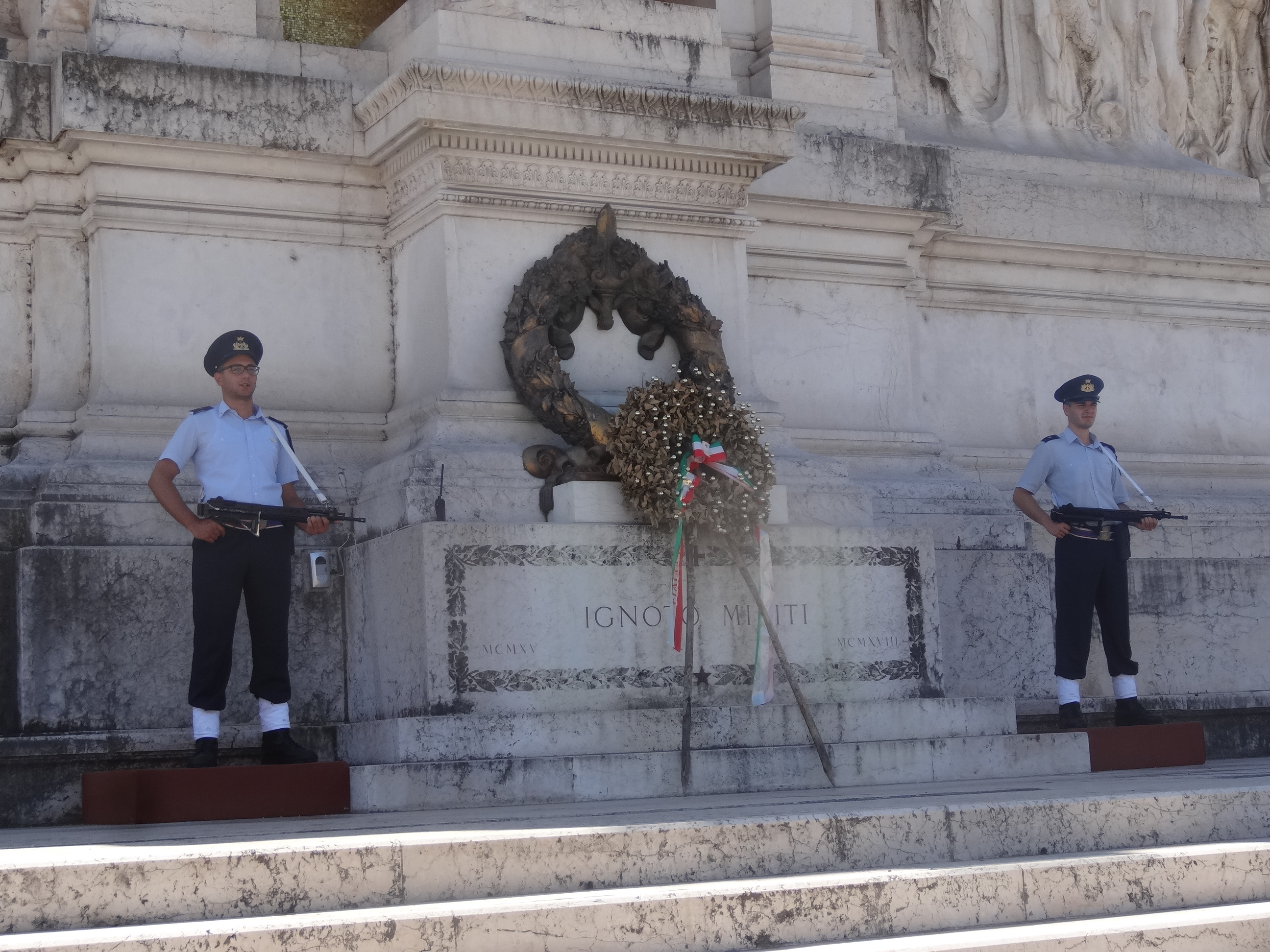 Vittoriano (Rome, 2016)